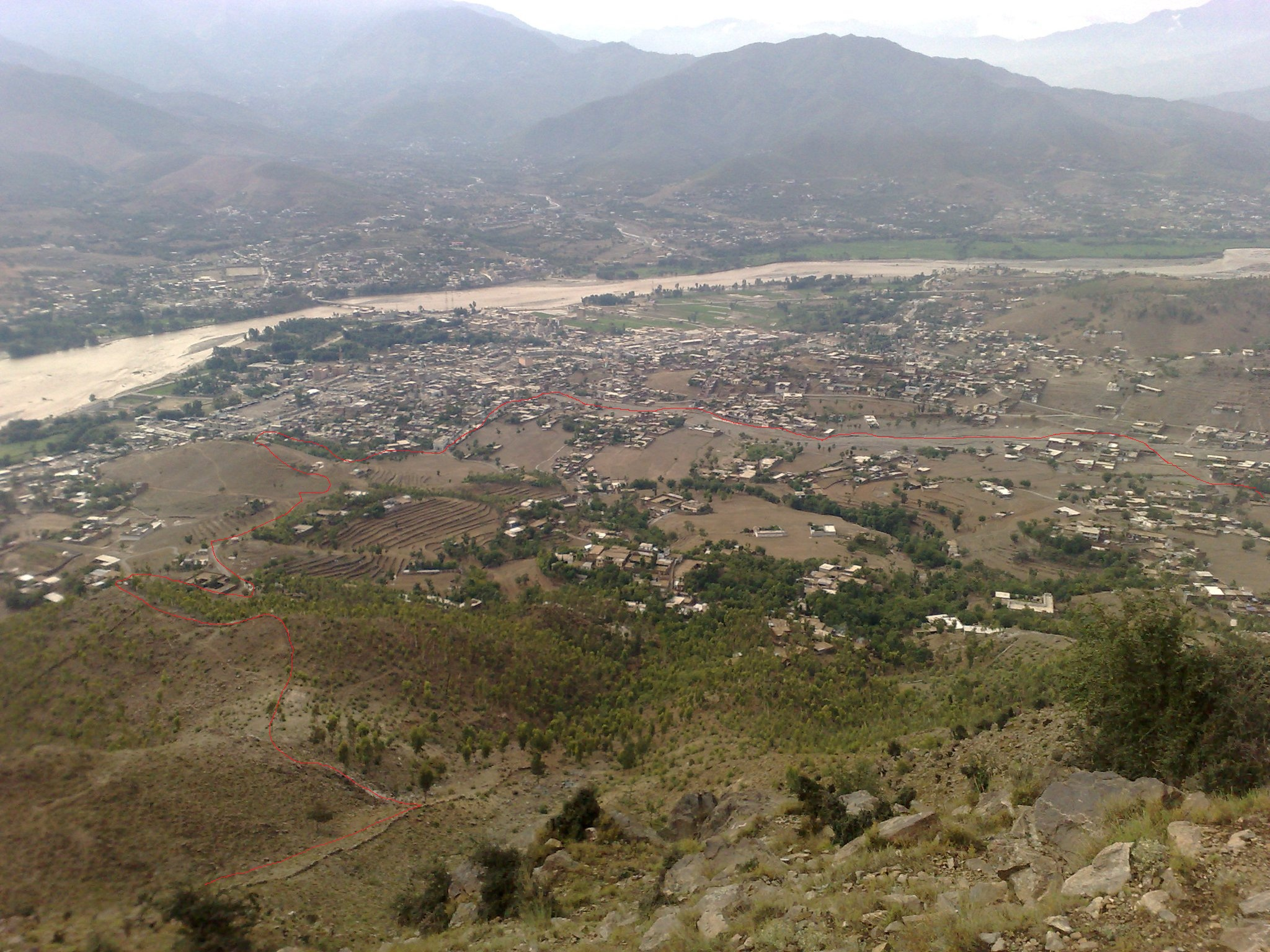 overview from top of hill